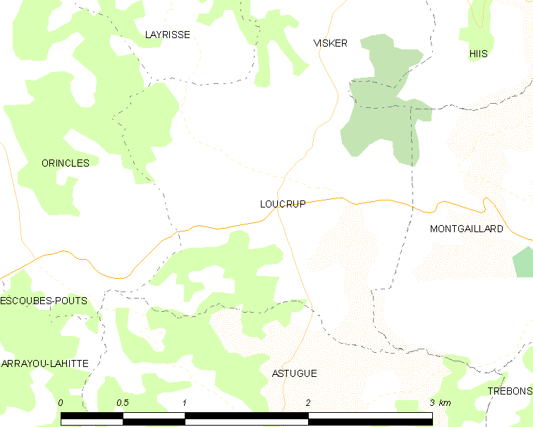 Map of French municipality